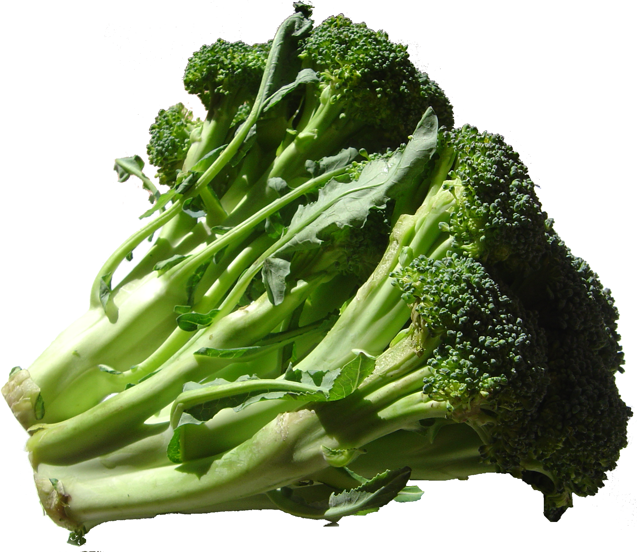 two Broccoli heads